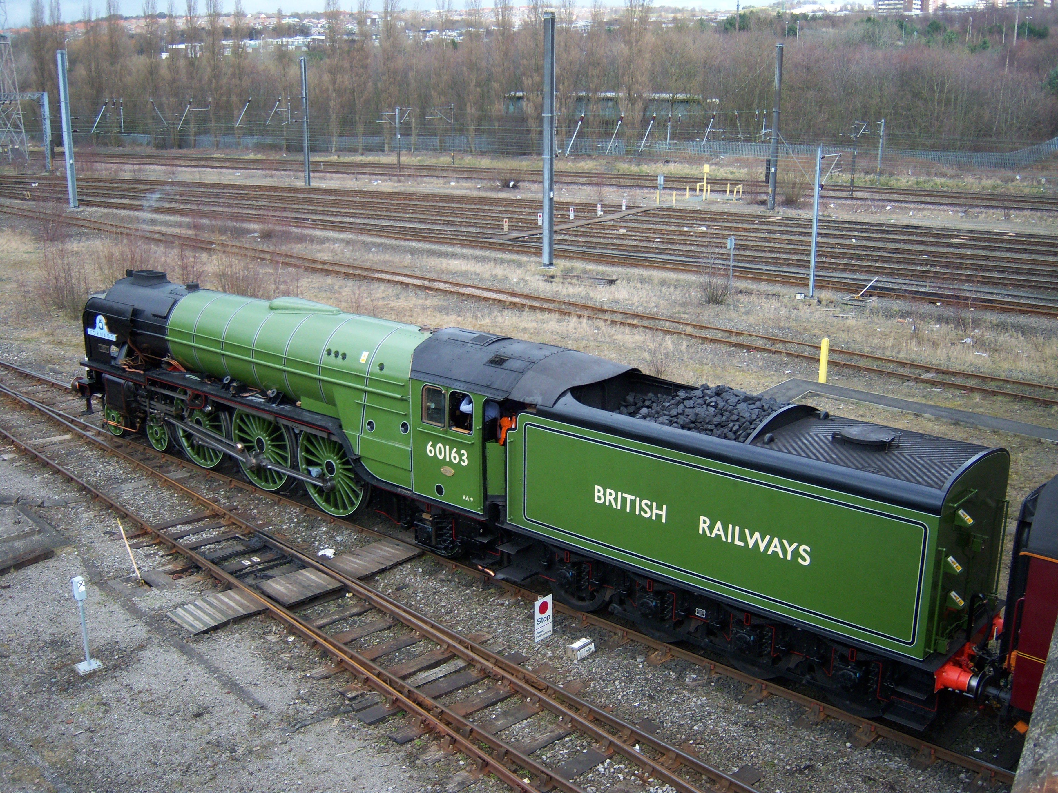 Brand new steam locomotive 60163 Tornado arrives in Tyne Yard to be serviced between the out and return trips of the Tyne Tornado rail tour. Tornado is actually travelling backwards at this point, with her train being hauled to the yard from Newcastle Central Station by two diesel locomotives.